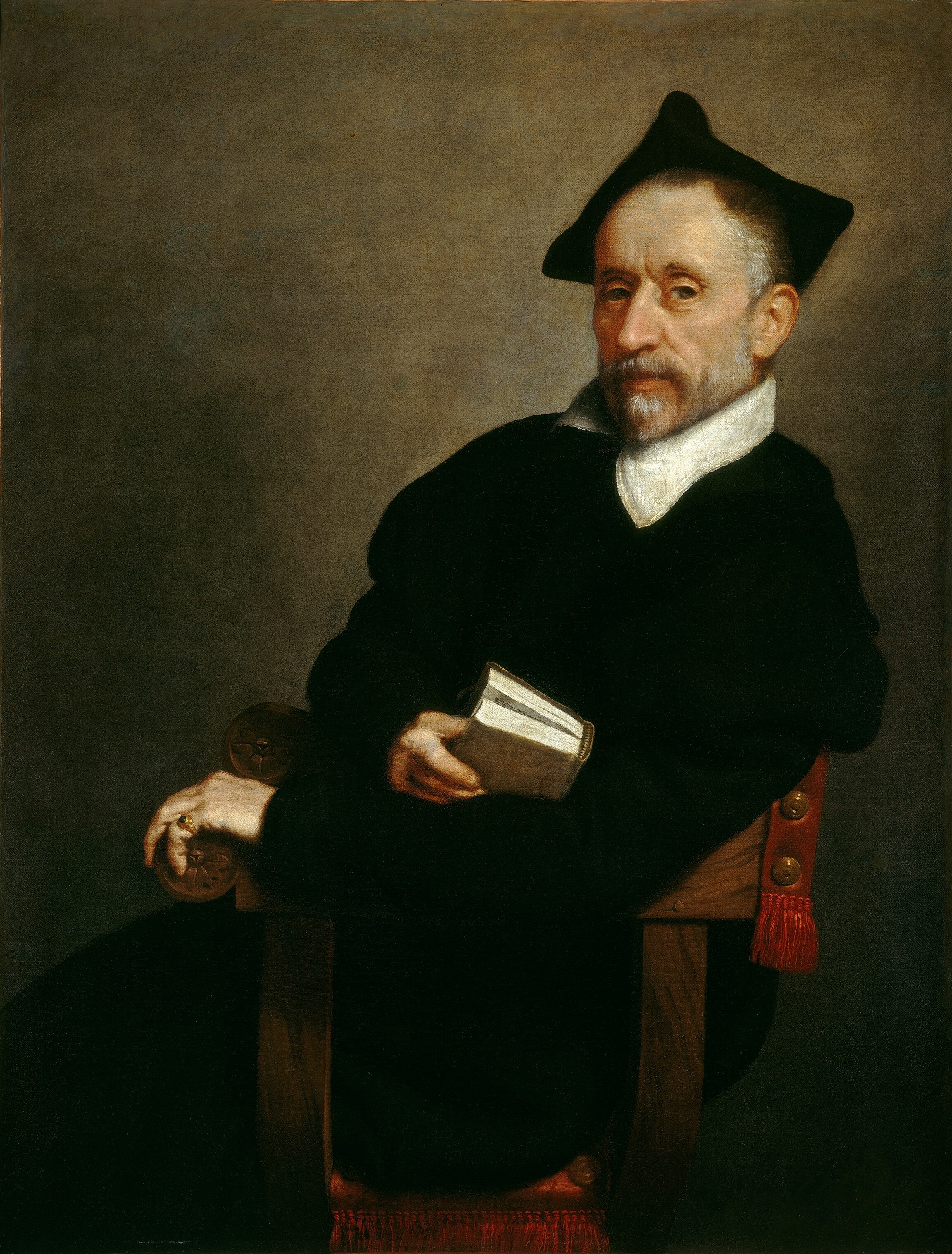 The identity of the gentleman in this portrait is a mystery.